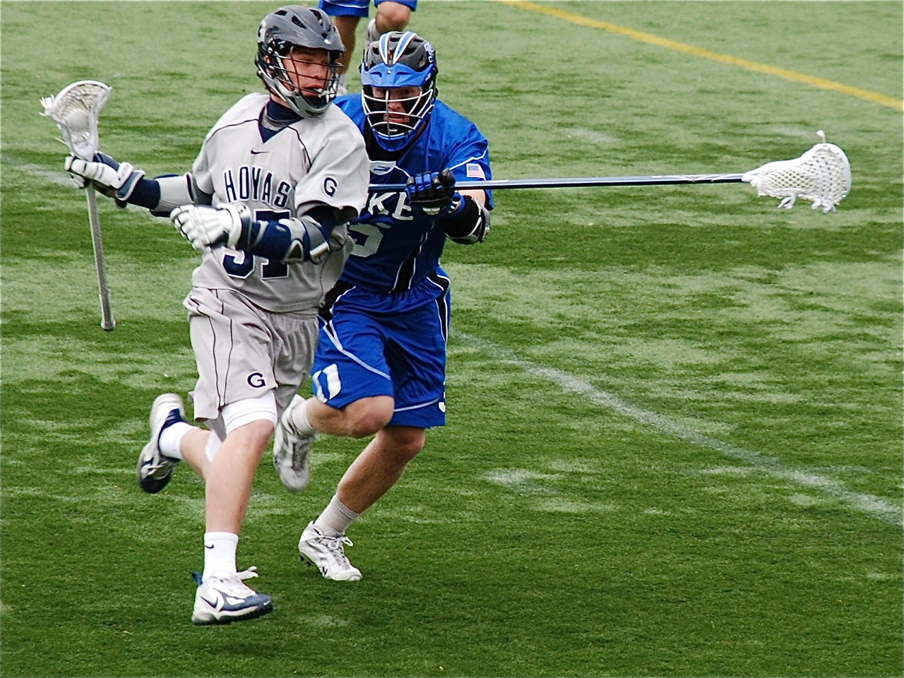 1 Duke vs. #10 Georgetown at Georgetown on Saturday, March 22, 2008. Georgetown won, the first time in the team's history to defeat a #1 ranked team.